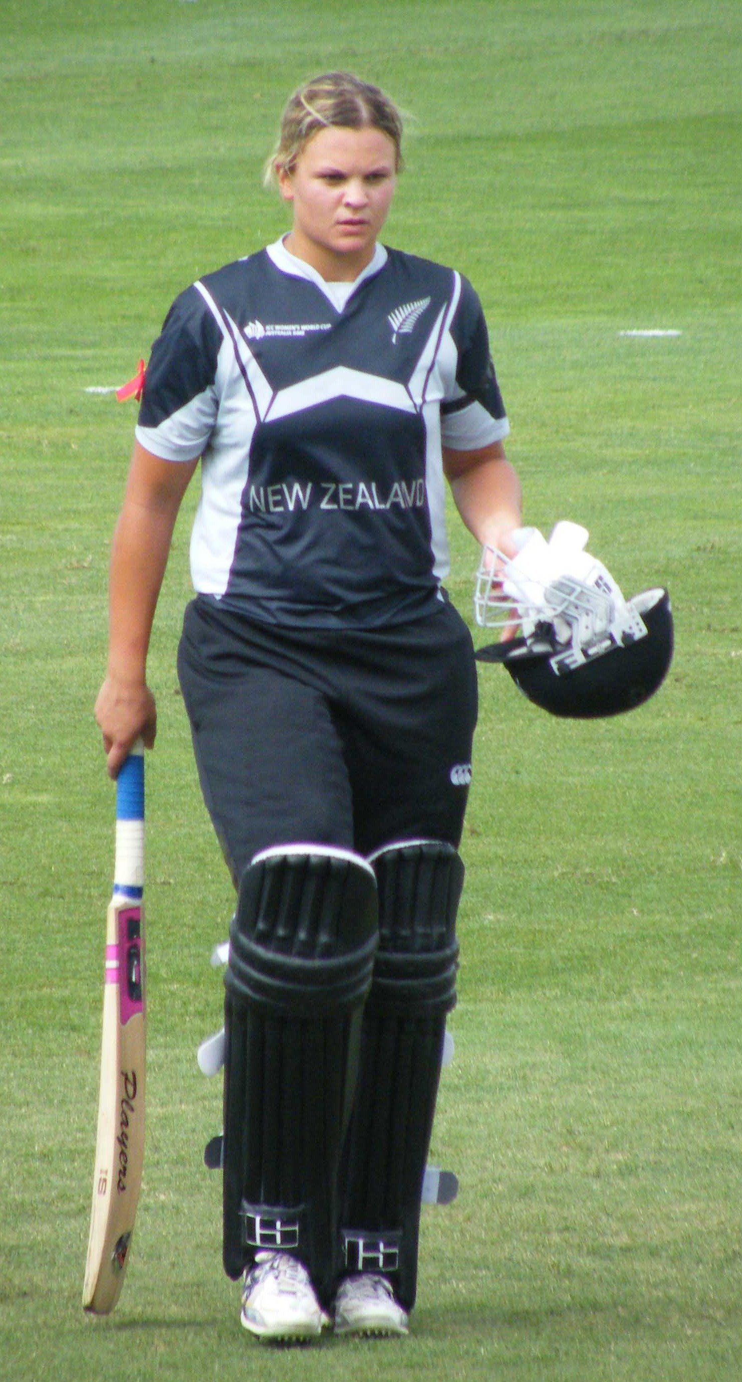 Suzie Bates of New Zealand during the 2009 Women's Cricket World Cup.